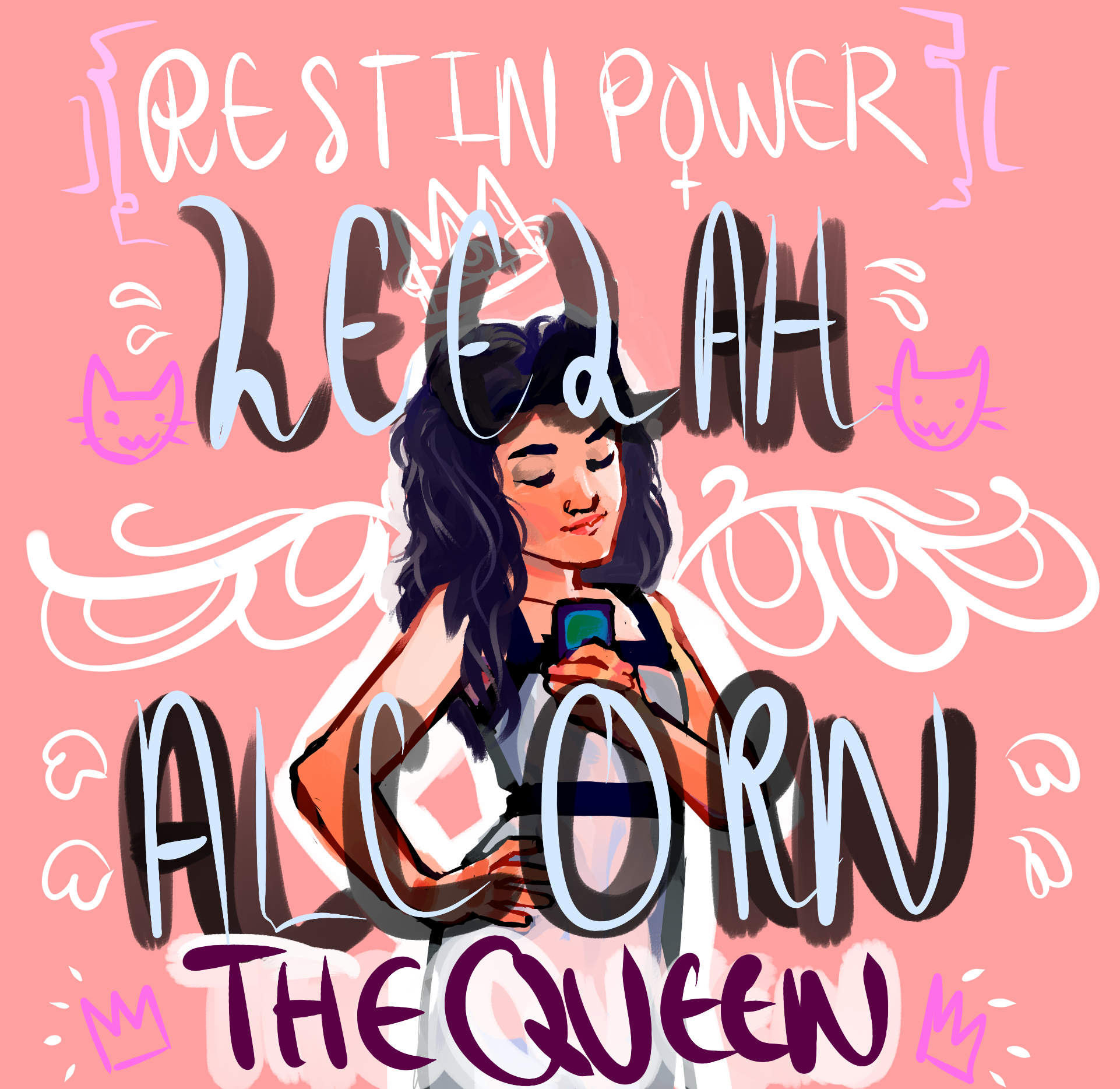 A tribute to the beautiful little girl, Leelah. (Long haired version, the hairstyle she wanted.)